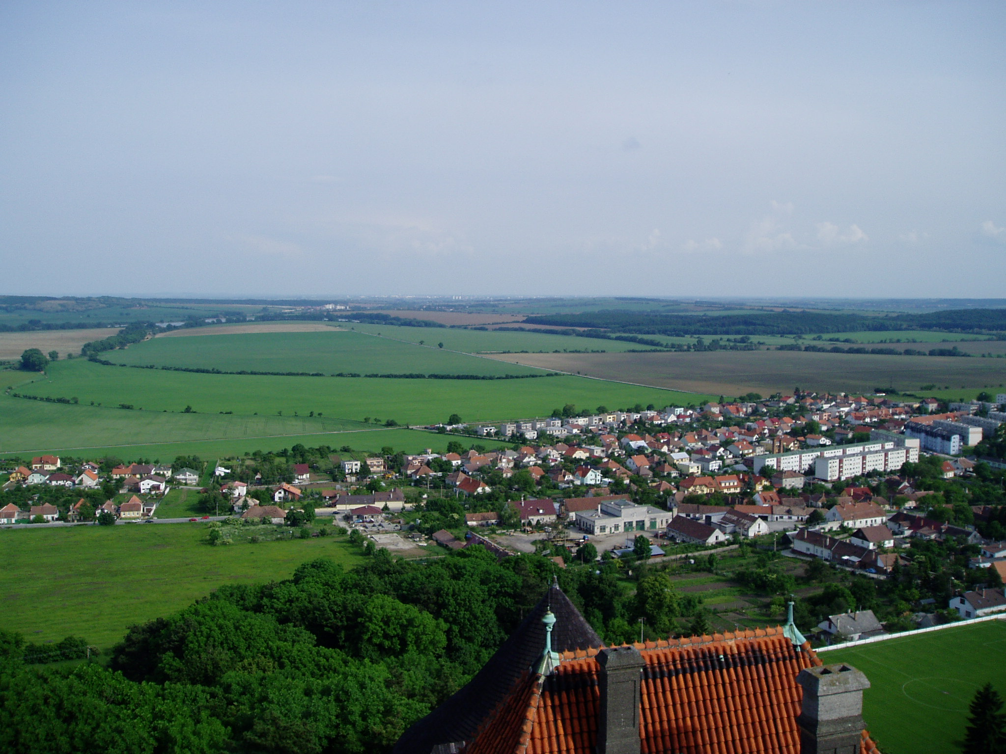 It's the Smolenice village viewed from the castle tower